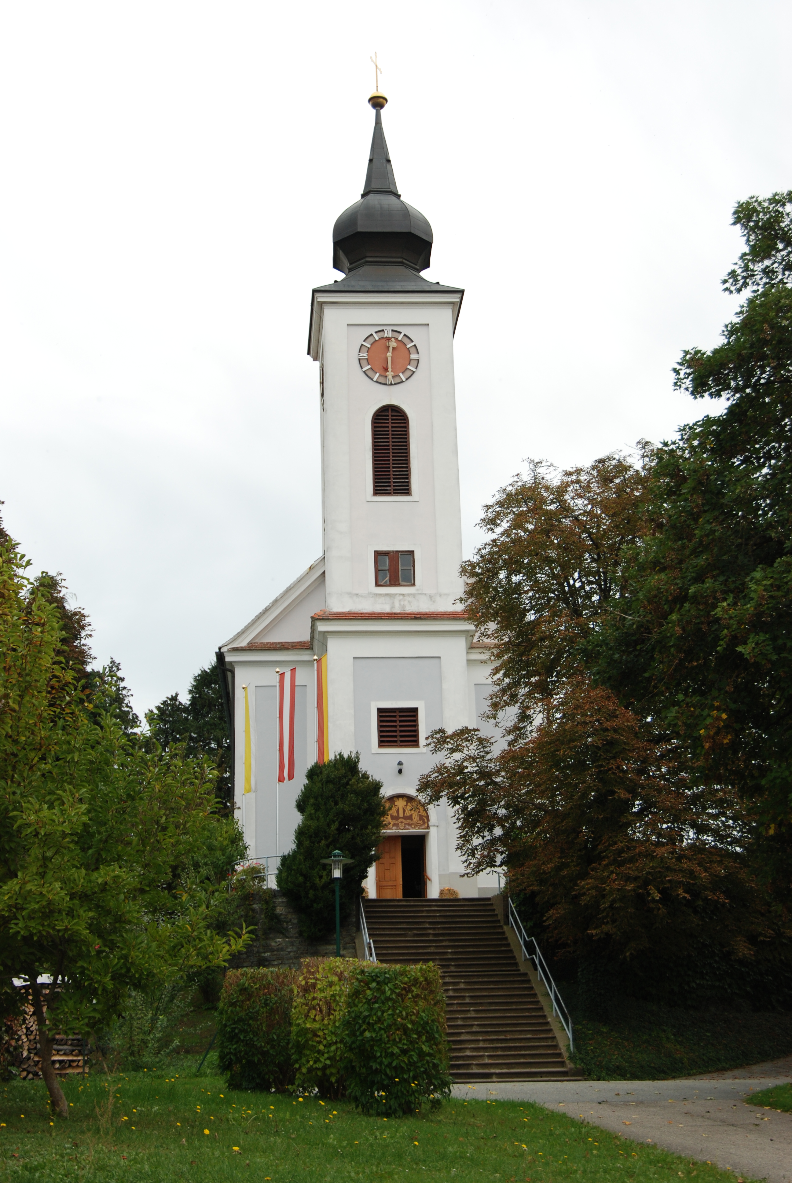 Pfarrkirche Heiligenkreuz im Lafnitztal